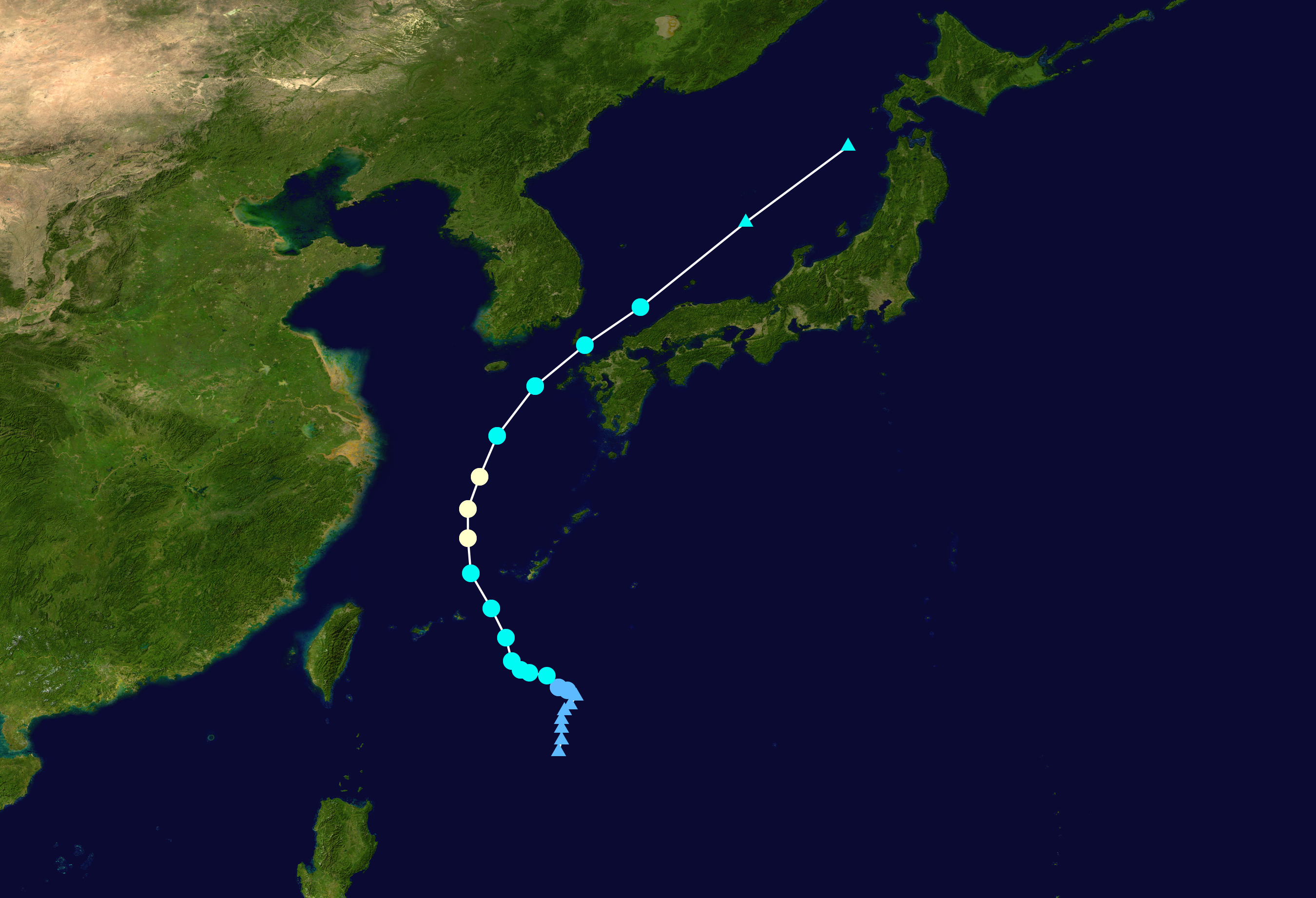 Track map of Typhoon Tapah of the 2019 Pacific typhoon season. The points show the location of the storm at 6-hour intervals. The colour represents the storm's maximum sustained wind speeds as classified in the Saffir–Simpson scale (see below), and the shape of the data points represent the nature of the storm, according to the legend below. Saffir–Simpson scale Tropical depression≤38 mph≤62 km/h Category 3111–129 mph178–208 km/h Tropical storm39–73 mph63–118 km/h Category 4130–156 mph209–251 km/h Category 174–95 mph119–153 km/h Category 5≥157 mph≥252 km/h Category 296–110 mph154–177 km/h Unknown Storm type Tropical cyclone Subtropical cyclone Extratropical cyclone / Remnant low / Tropical disturbance / Monsoon depression